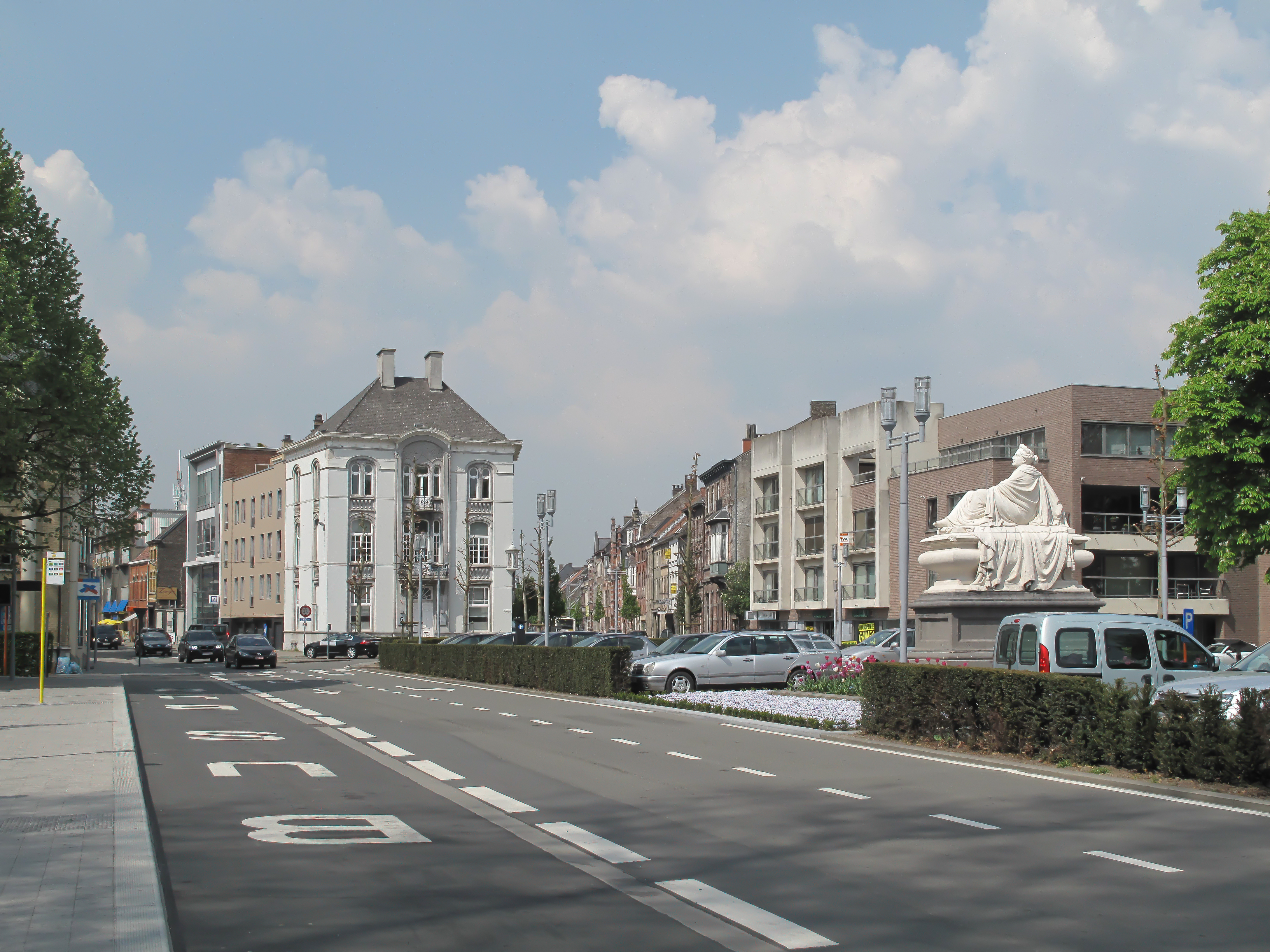 Oudenaarde, view to a street: het Tacambaroplein